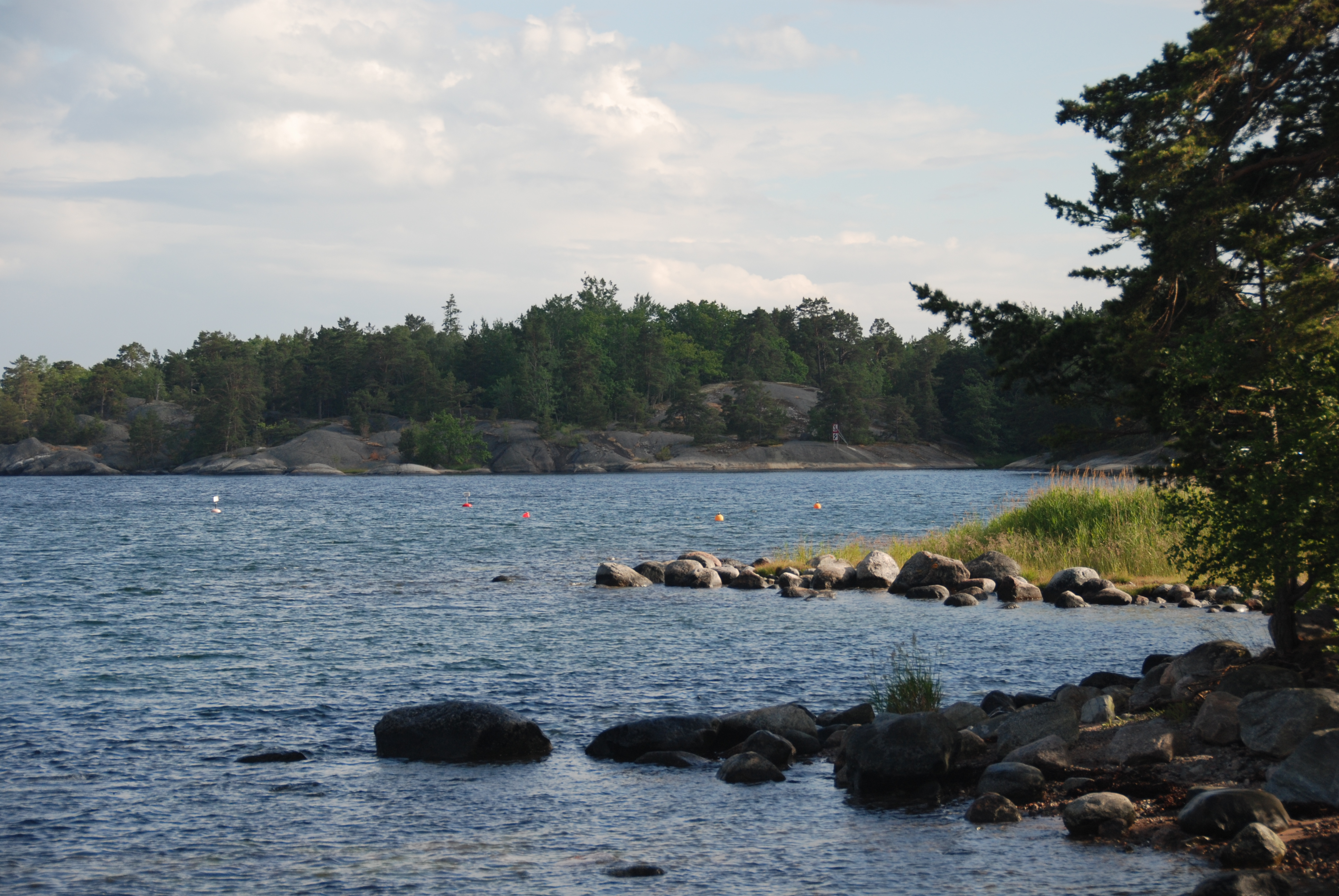 Nature at Finnhamn, Stockholm archipelago